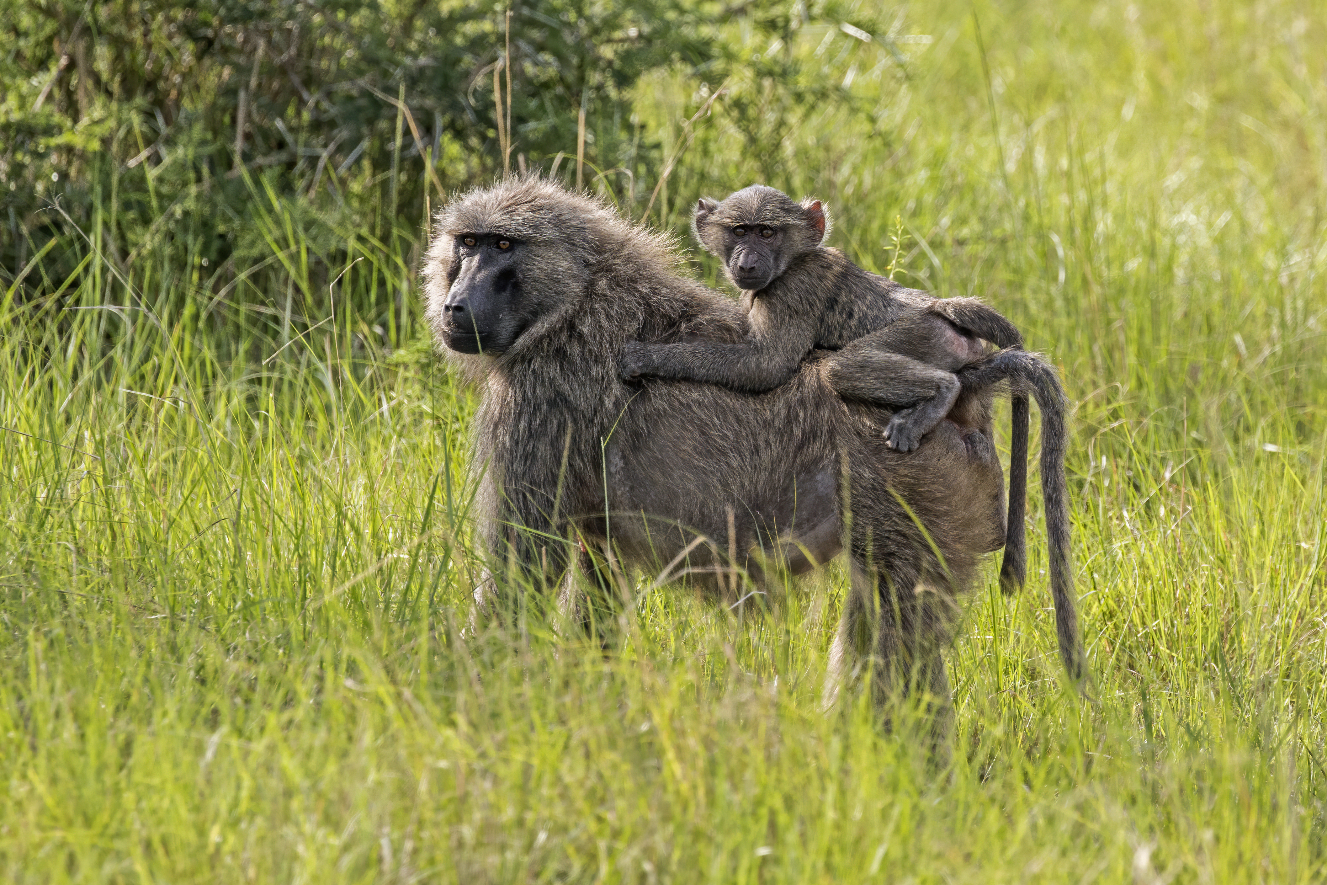 Olive baboon (Papio anubis) with baby, Queen Elizabeth National Park, Uganda